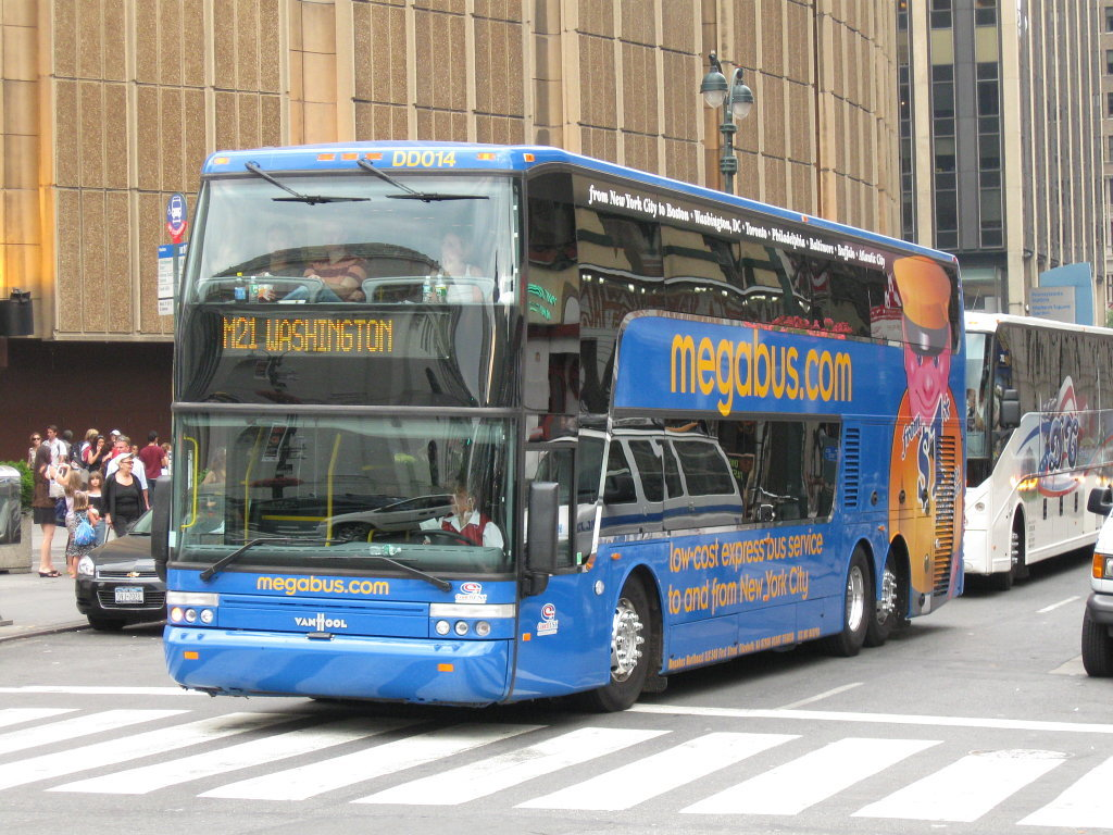 Megabus Van Hool TD925 Astromega US-spec #DD014 departs New York City on the M21 to Baltimore and Washington, D.C., on the 1745 departure.